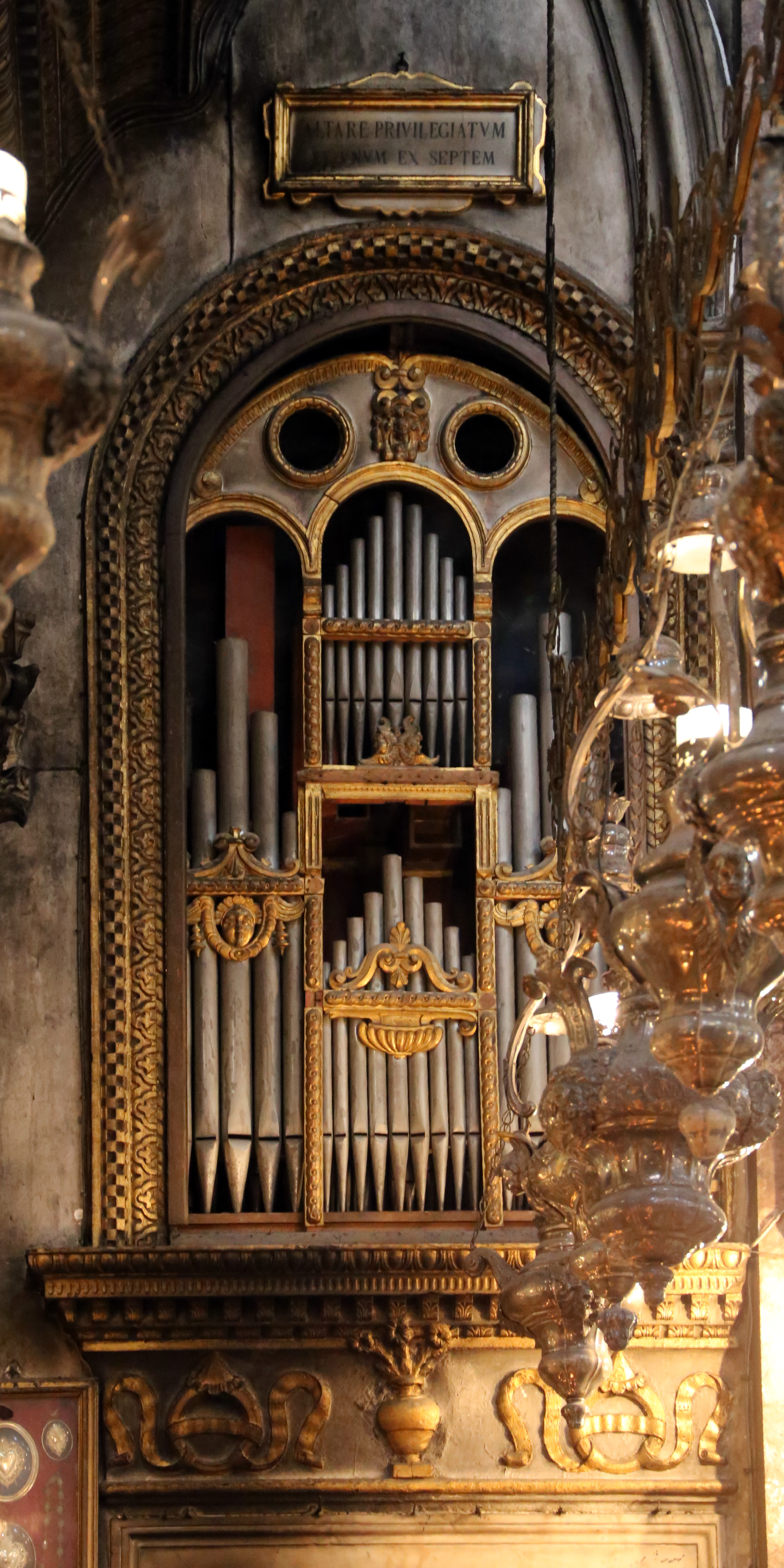 Santissima Annunziata (Florence) - Annunziata Chapel and its pertinent rooms